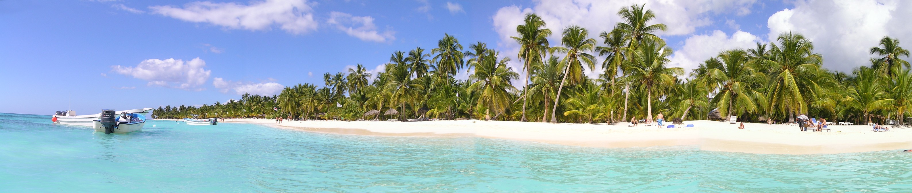 Panoramic view of a beach on the Saona island, Dominican Republic. Taken by Tamas Iklodi